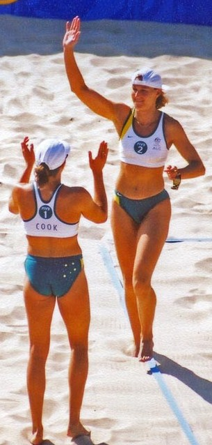 Womens beach volleyball